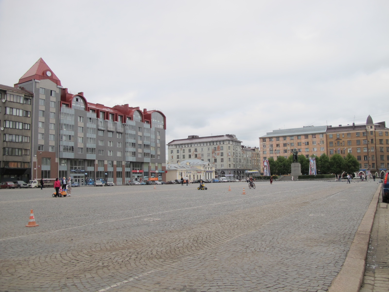 Red Square in Vyborg